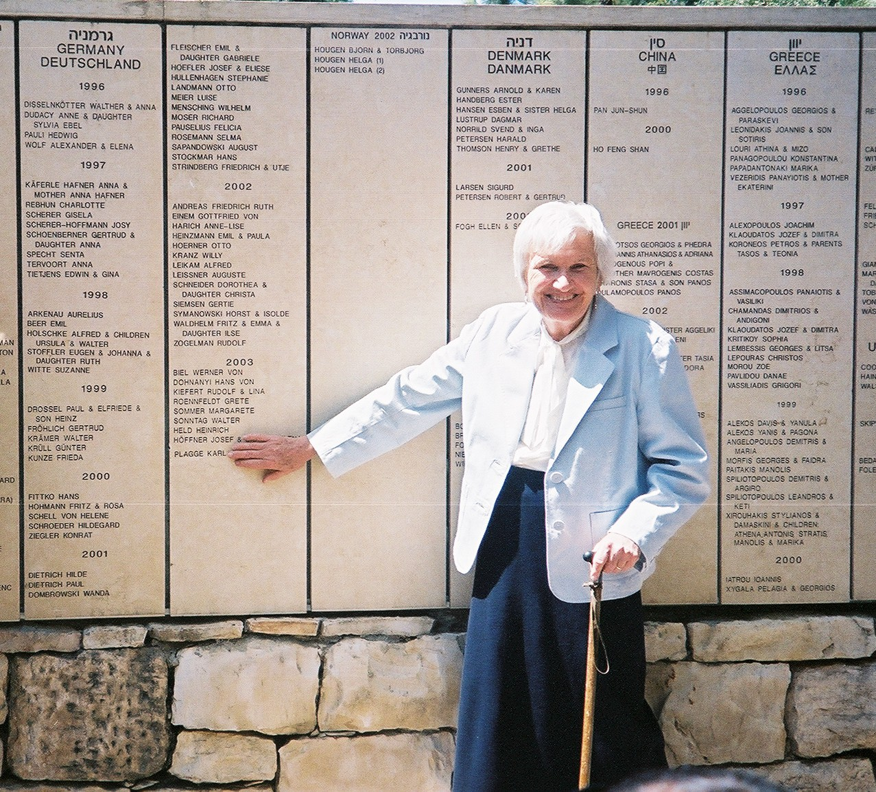 On April 11, 2005 HKP survivor Pearl Good points to Karl Plagge's name on the Wall of the Righteous at Yad Vashem. I own this photo of my mother, taken April 11, 2005.